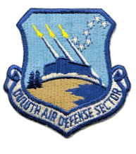 Emblem of the Duluth Air Defense Sector (ADC)